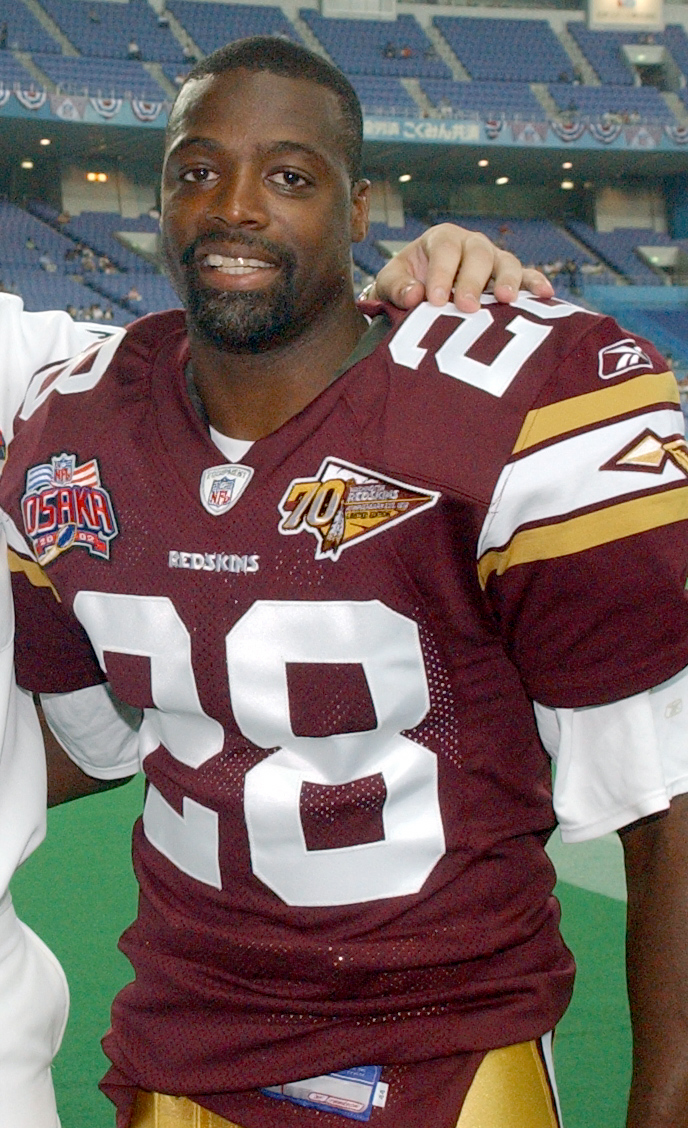 Osaka, Japan (Aug. 4, 2002) -- Photographer’s Mate 2nd Class Sean Dath assigned to the Naval Media Center Detachment aboard Commander Fleet Activities Yokosuka poses with childhood hero and legendary cornerback Darrell Green of the Washington Redskins. The photo opportunity was prior to the start of the 2002 American Bowl contest between Washington and the San Francisco 49ers.